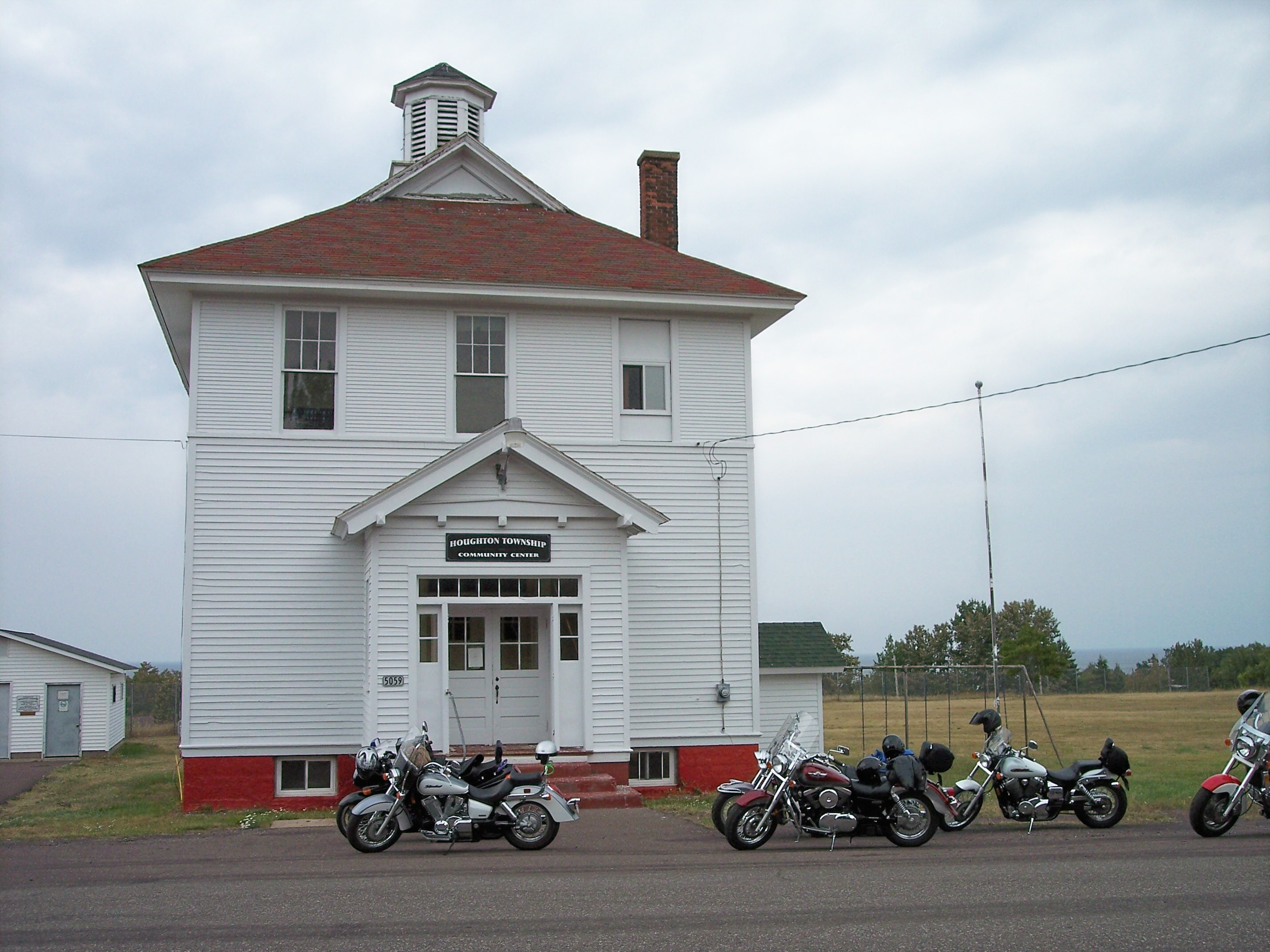 The Houghton Township Community Center in Eagle River, Michigan